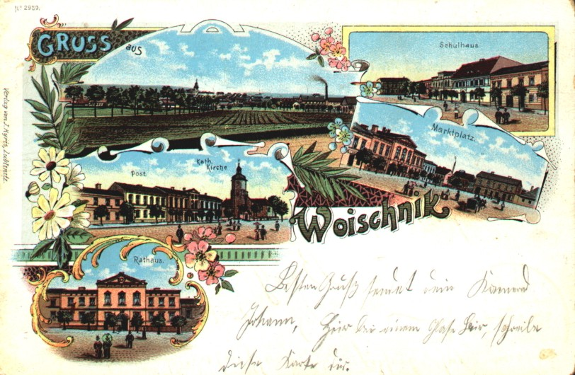 “Gruss aus Woischnik” Old german postcard of the town Woźniki in Upper Silesia (now Poland)